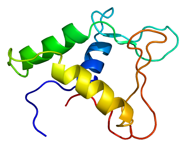 Structure of the ERG protein. Based on PyMOL rendering of PDB 1fli.